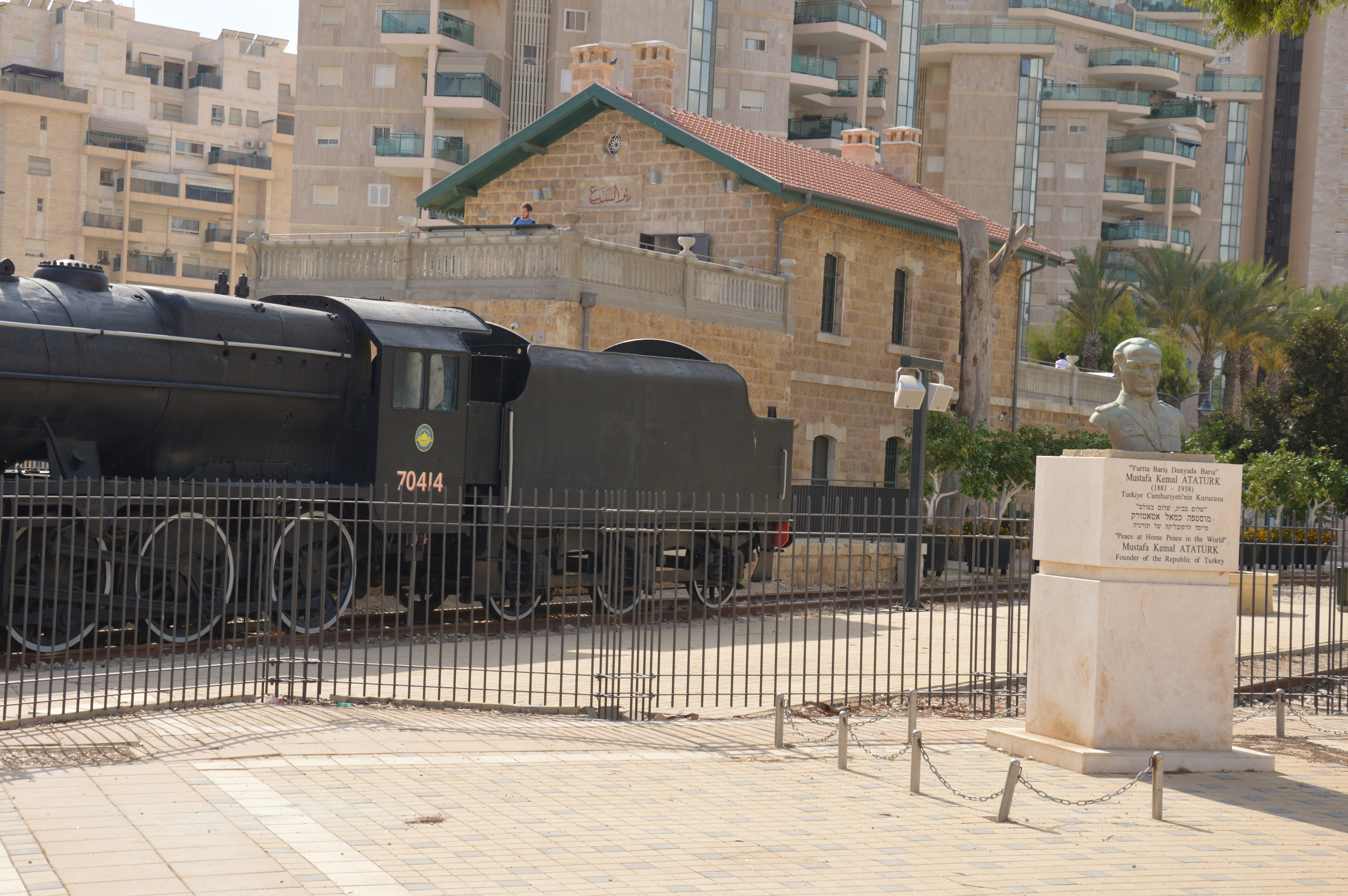 Ataturk memorial next to the Turkish Soldiers Monument in Be'er Sheva